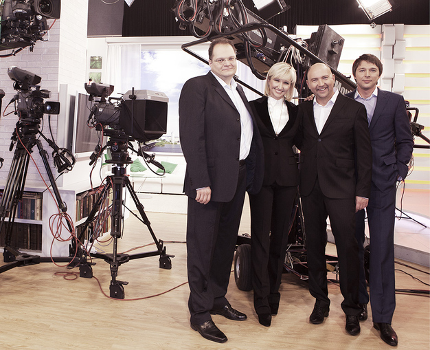 Top-management of the Ukrainian media group StarLightMedia (October 2012).